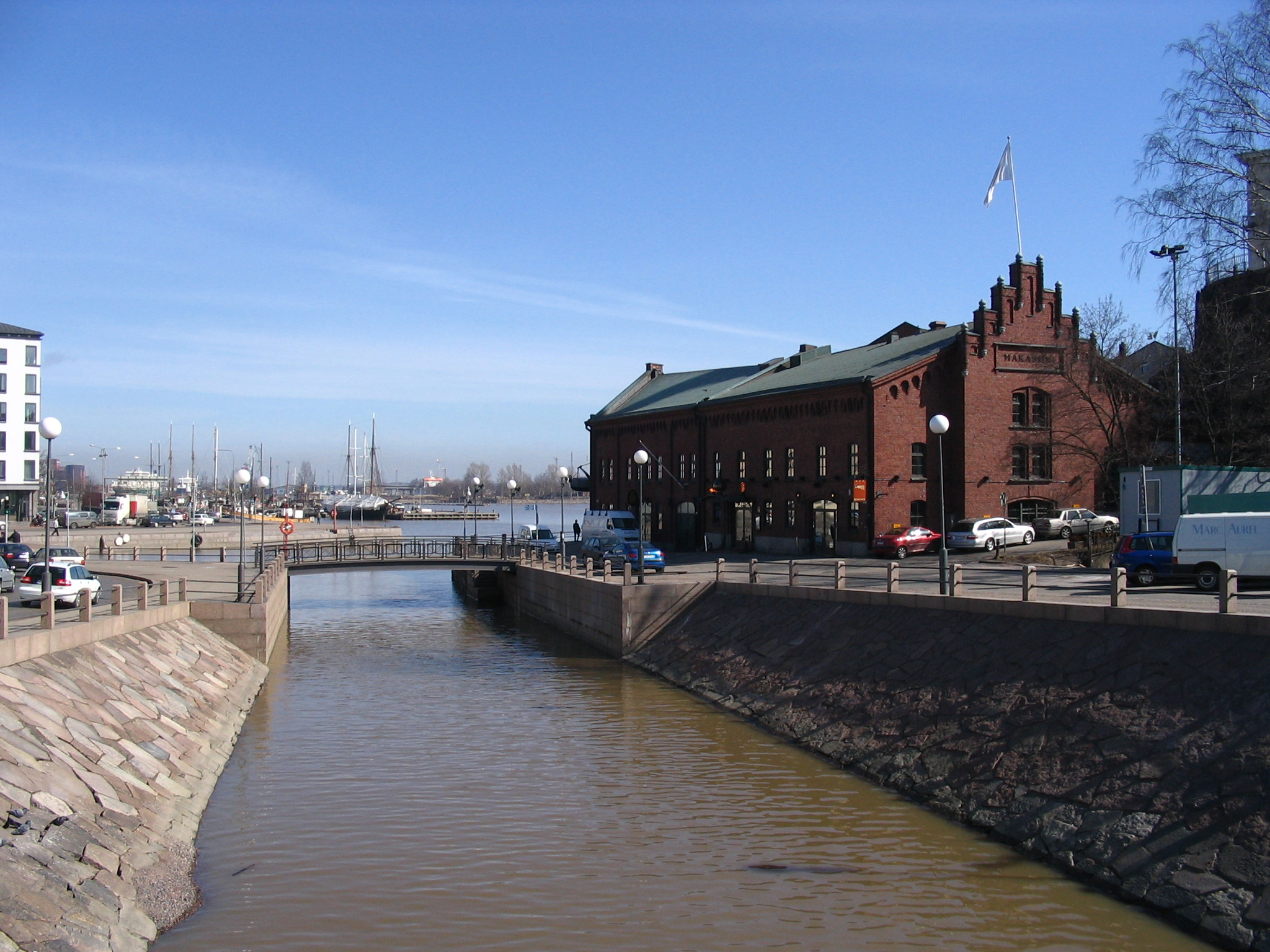 Canal in the center of Helsinki